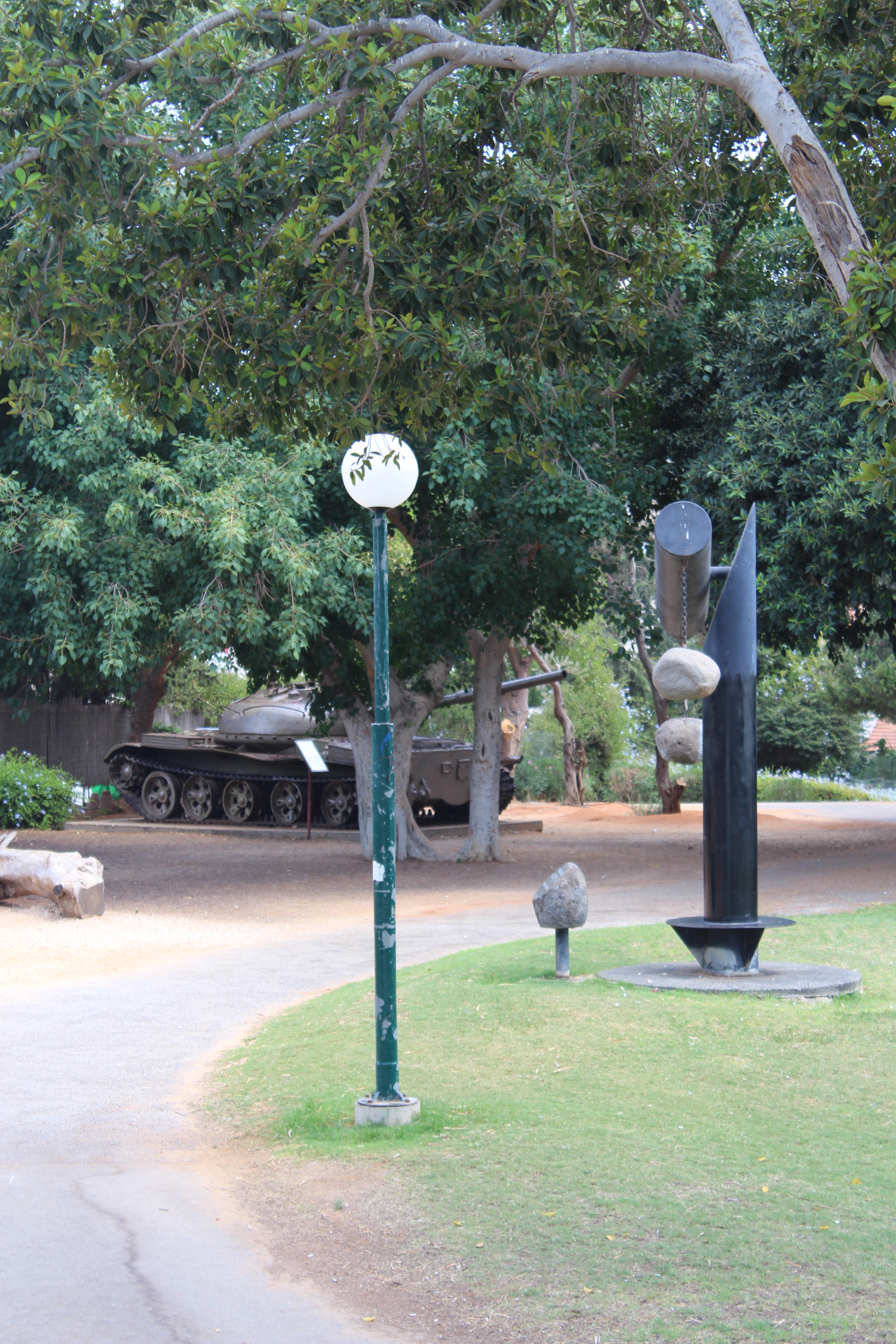 Yad la-Banim (Memorial Hall) Park, Petah Tikva, Israel This image was taken as part of the Elef Millim project trip to Petah Tikva which was held on Friday, 19th July 2013. To view all images uploaded as part of the Elef Millim Project